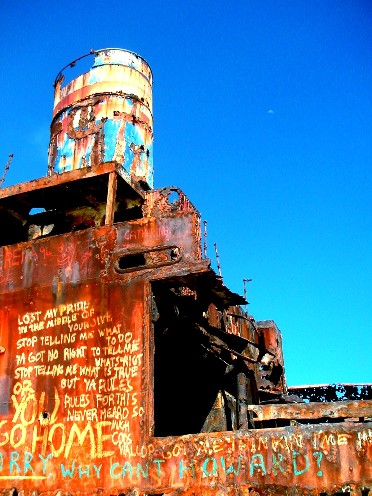 The rusted and daubed Cherry Venture in 2002. What's left of the bridge can be seen hanging down, it had collapsed shortly before we were there.